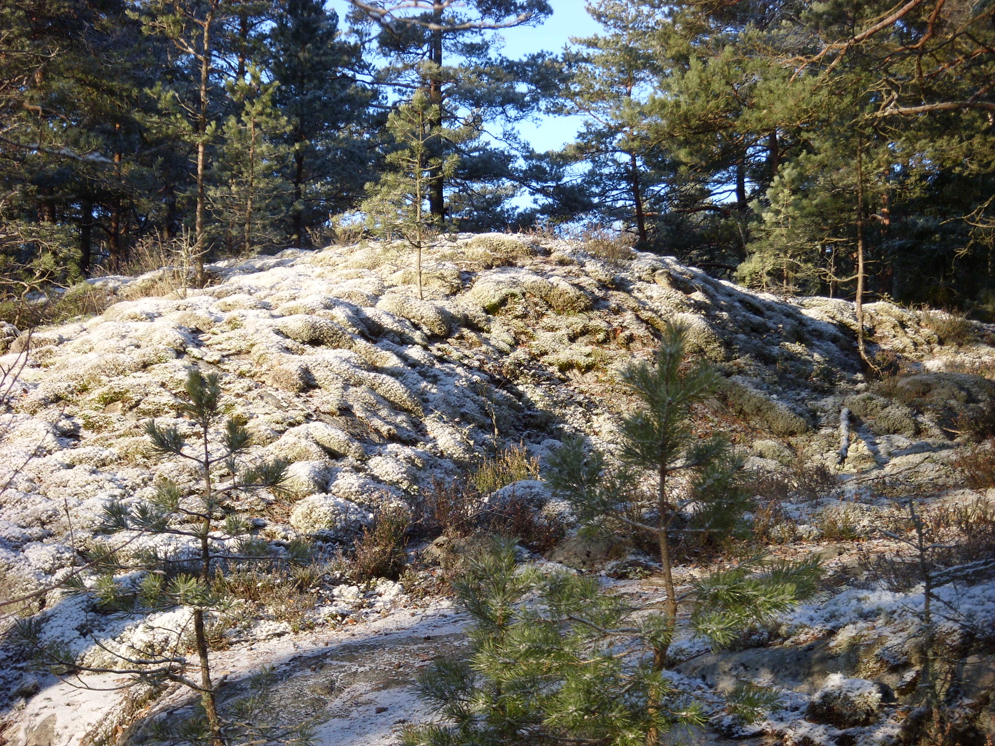 This is another picture of the nature reserve called Talbyskogen, in Södertälje, Sweden.